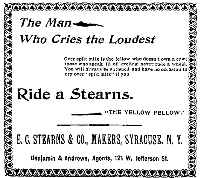 Stearns Bicycle - Yellow Fellow - Syracuse, New York